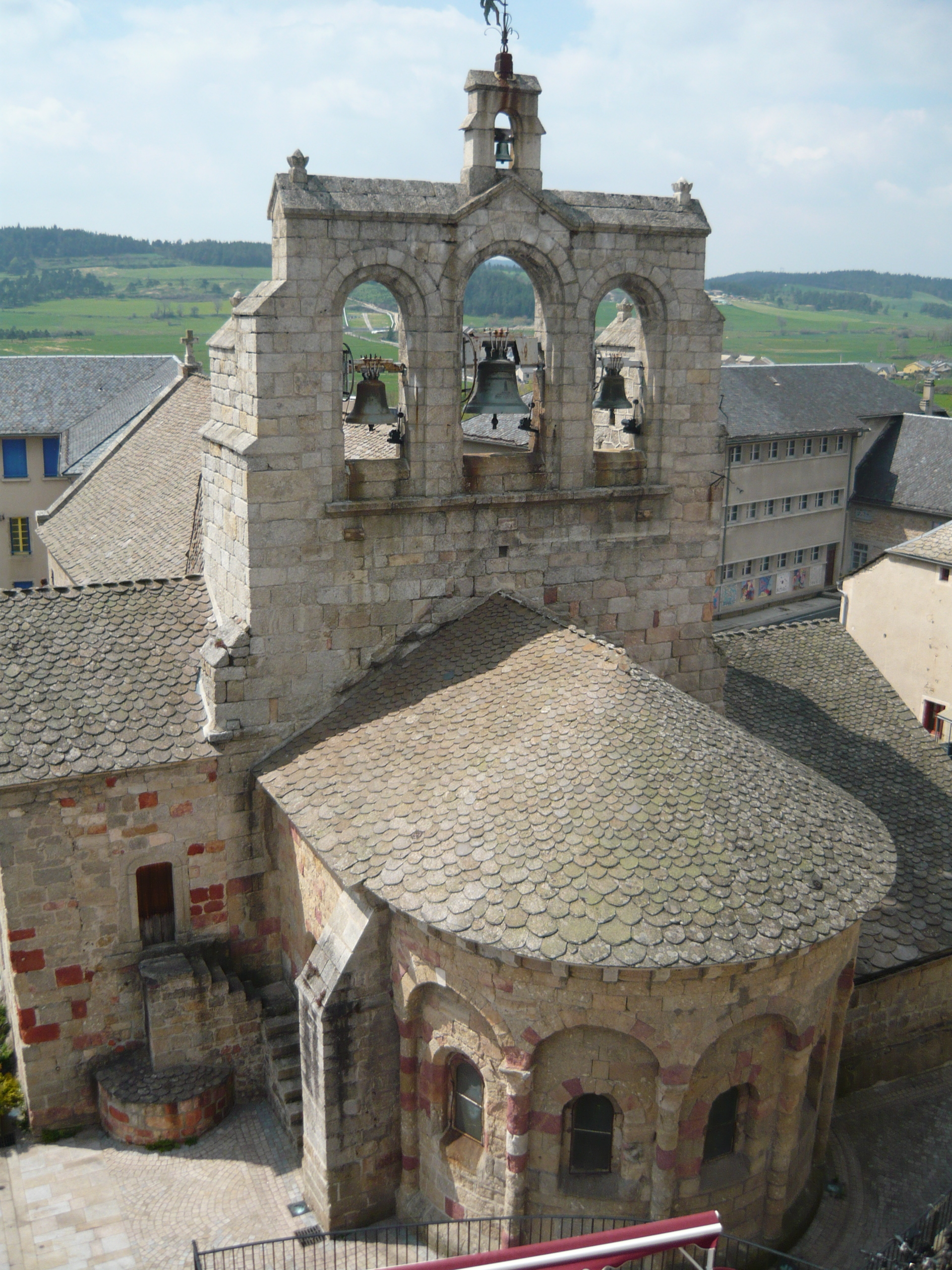 Church of Saint-Alban-sur-Limagnol